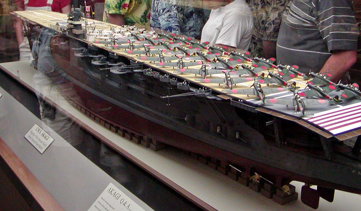 Photo of carrier Akagi model at Pearl Harbor